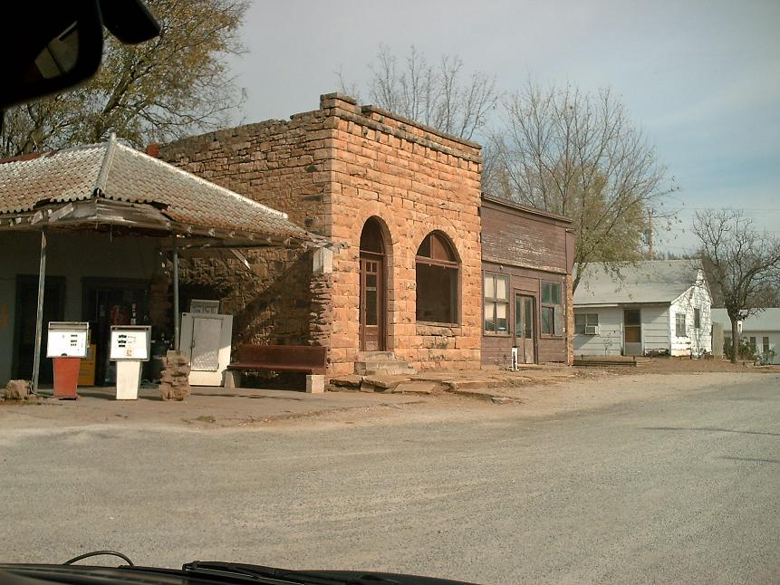 This is a photo of the remaining buildings on the north side of the Central business district in Blackburn. Photo taken November 19.